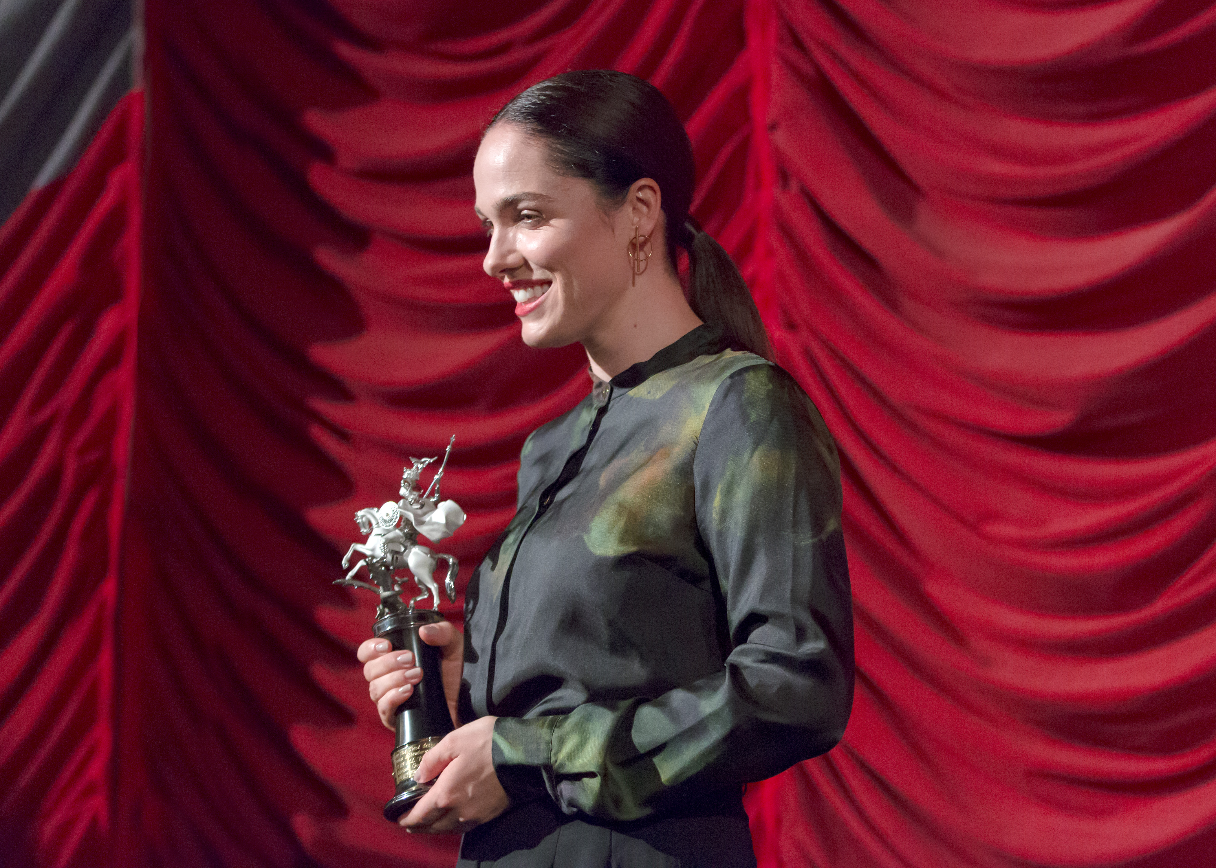 Verena Altenberger with the award for best female actress of the Moscow International Film Festival at the Viennese premiere of The Best Of All Worlds at Gartenbaukino, Vienna, Austria.